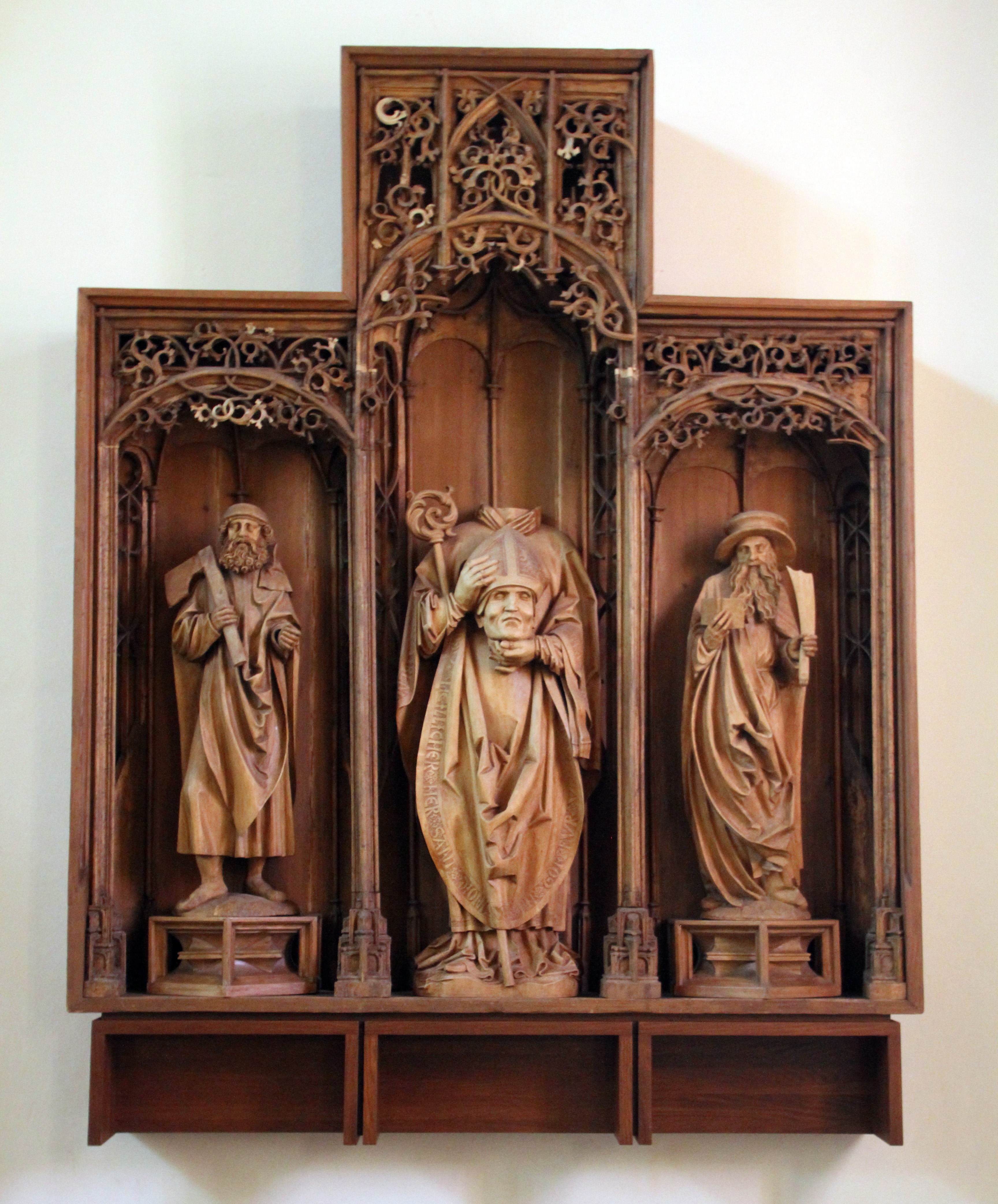 Church of St. Johannes der Täufer in Bühl-Vimbuch, interior decoration.